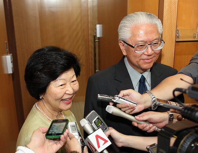 Dr. Tony Tan and Mrs. Mary Tan at a press conference announcing his candidacy for President of Singapore.